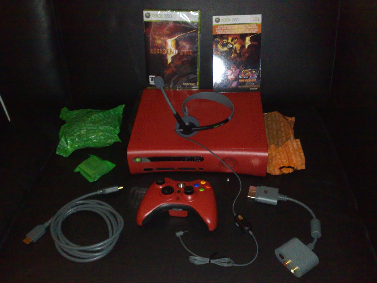 XBOX 360 Elite Limited Edition Resident Evil